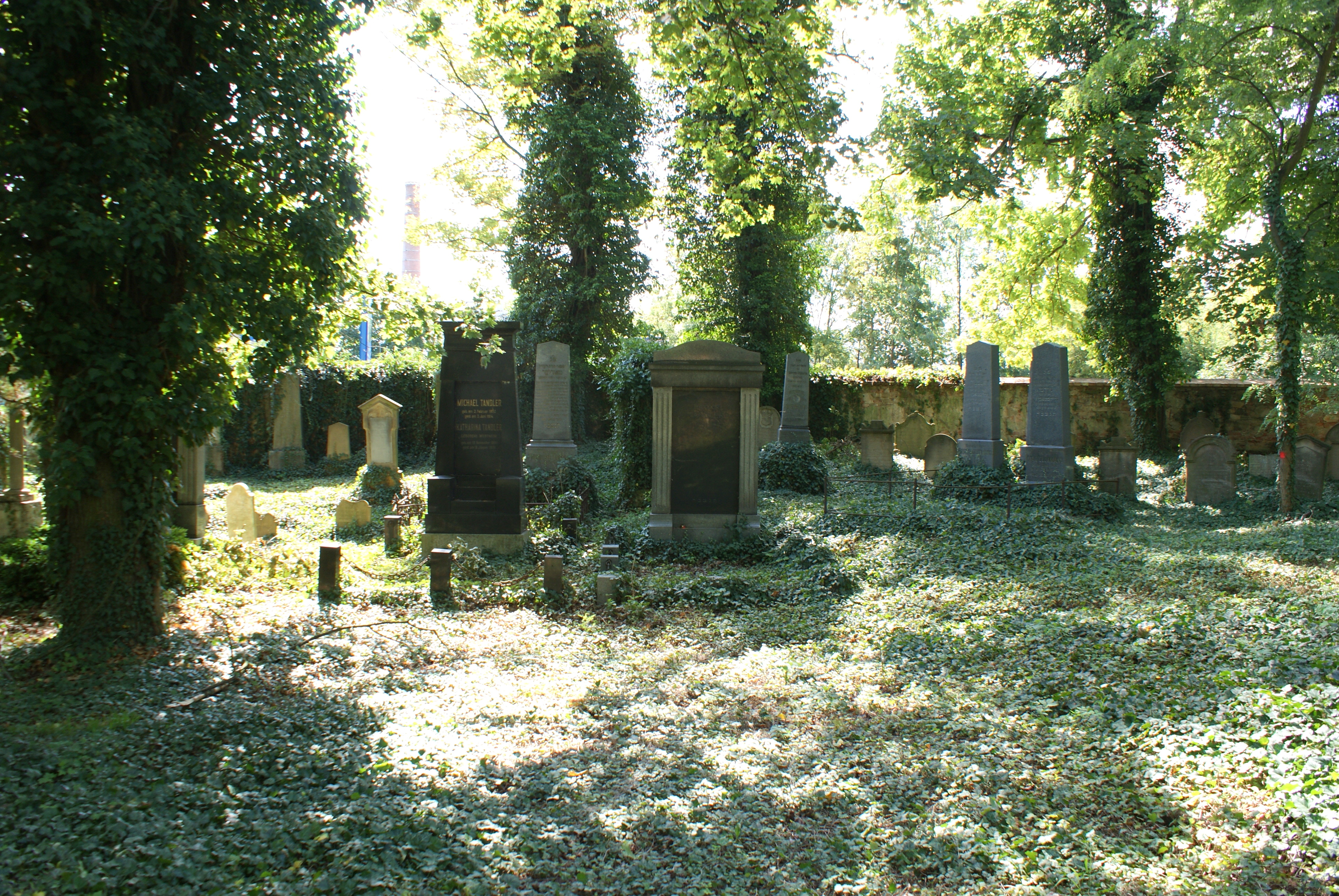 Moravský Krumlov, a town in Znojmo District, Czech Republic, Jewish cemetery